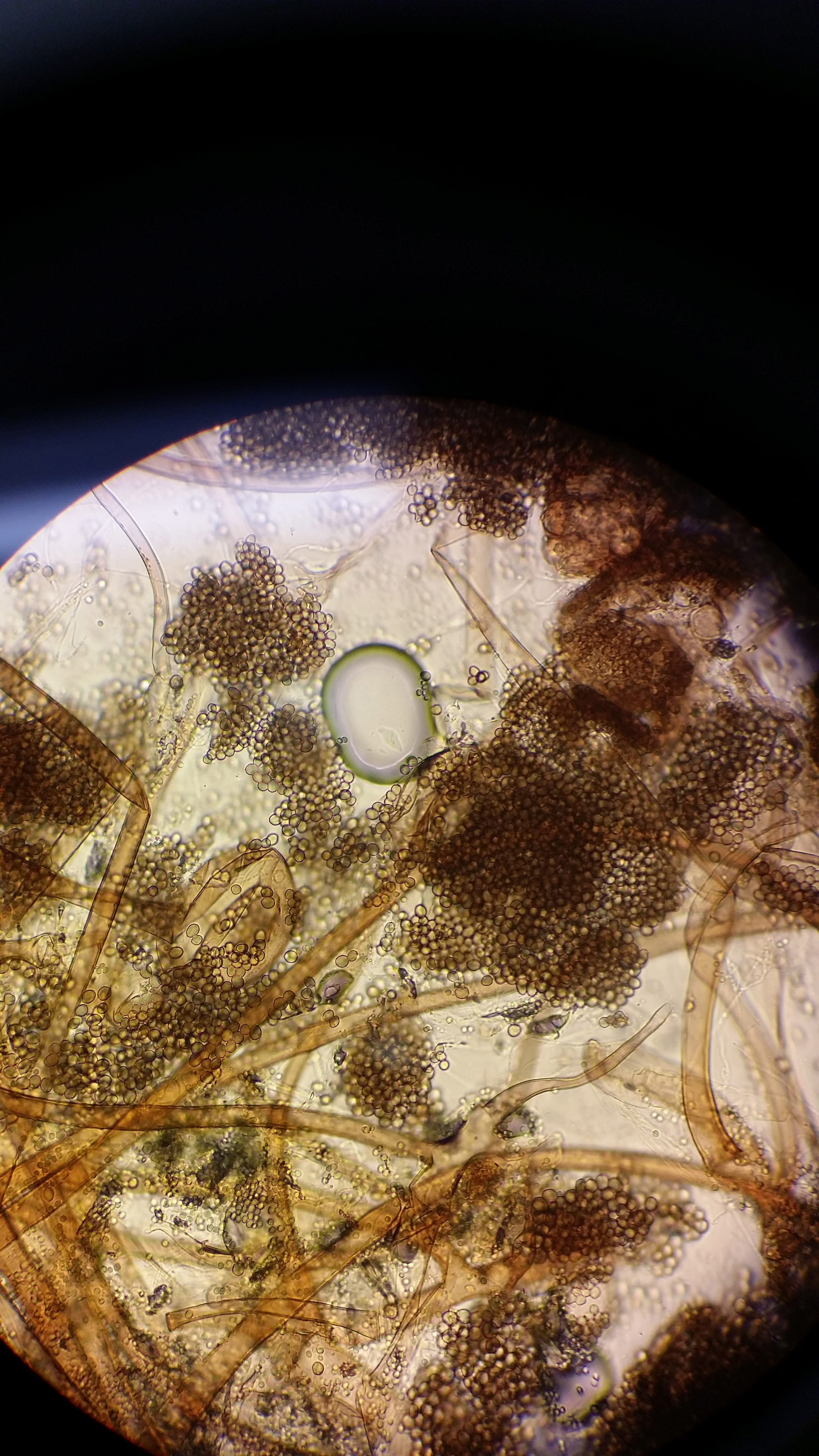 Microscope view of a fungi, where the hyphae are shown